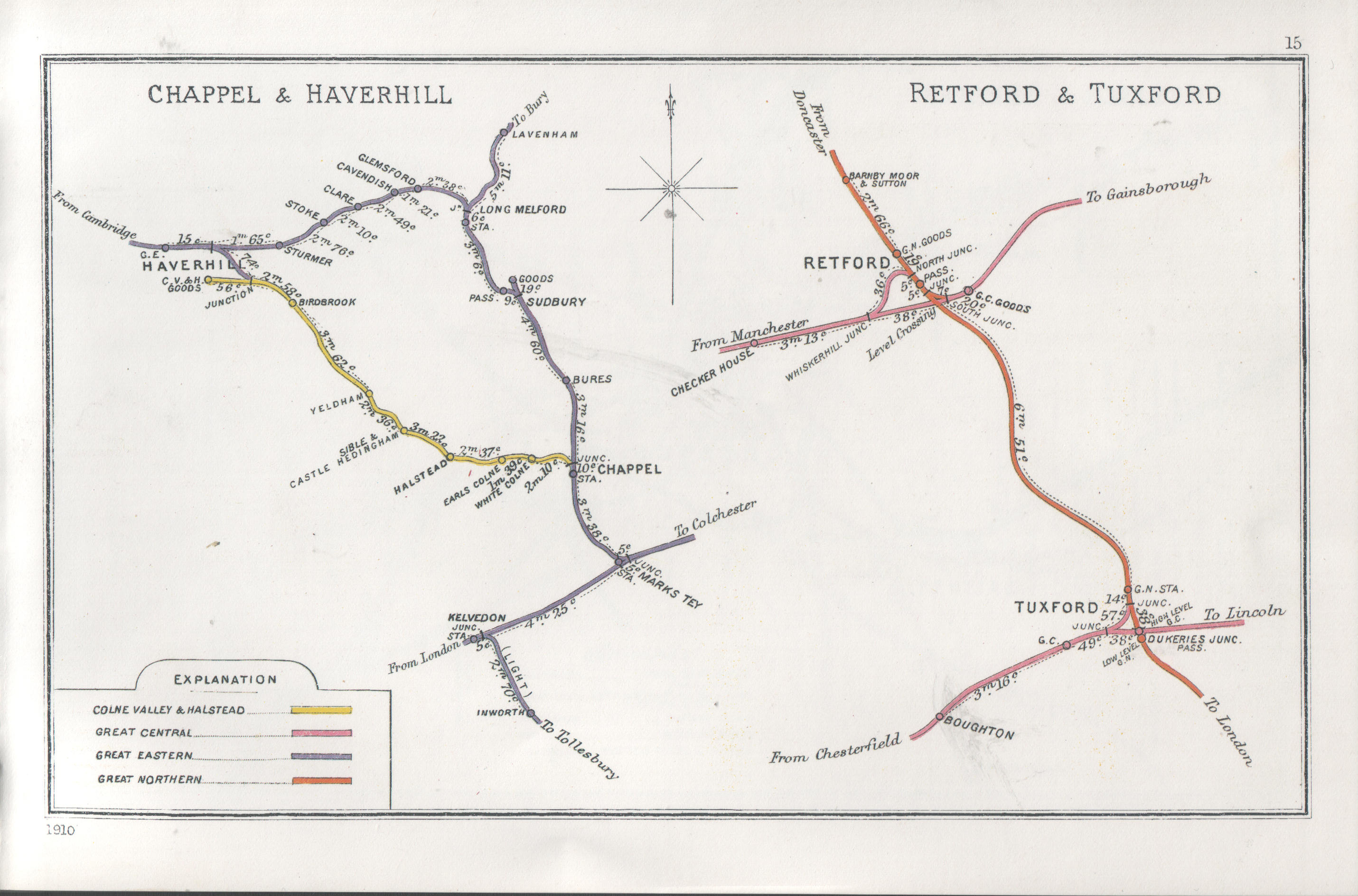 Pre Grouping railway junction around Chappel & Haverhill, Retford & Tuxford